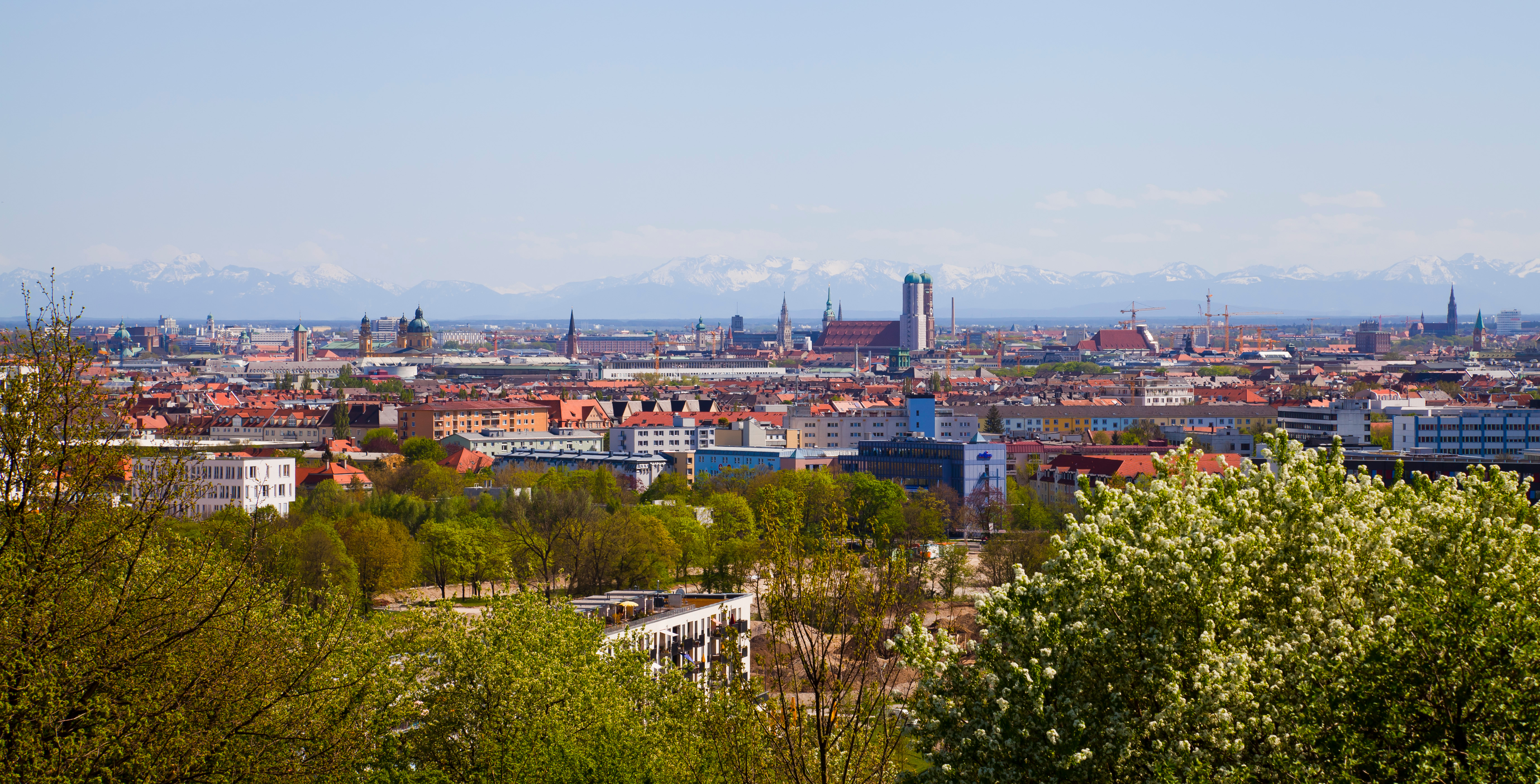 Panoramic view of Munich from Olympiapark, Germany